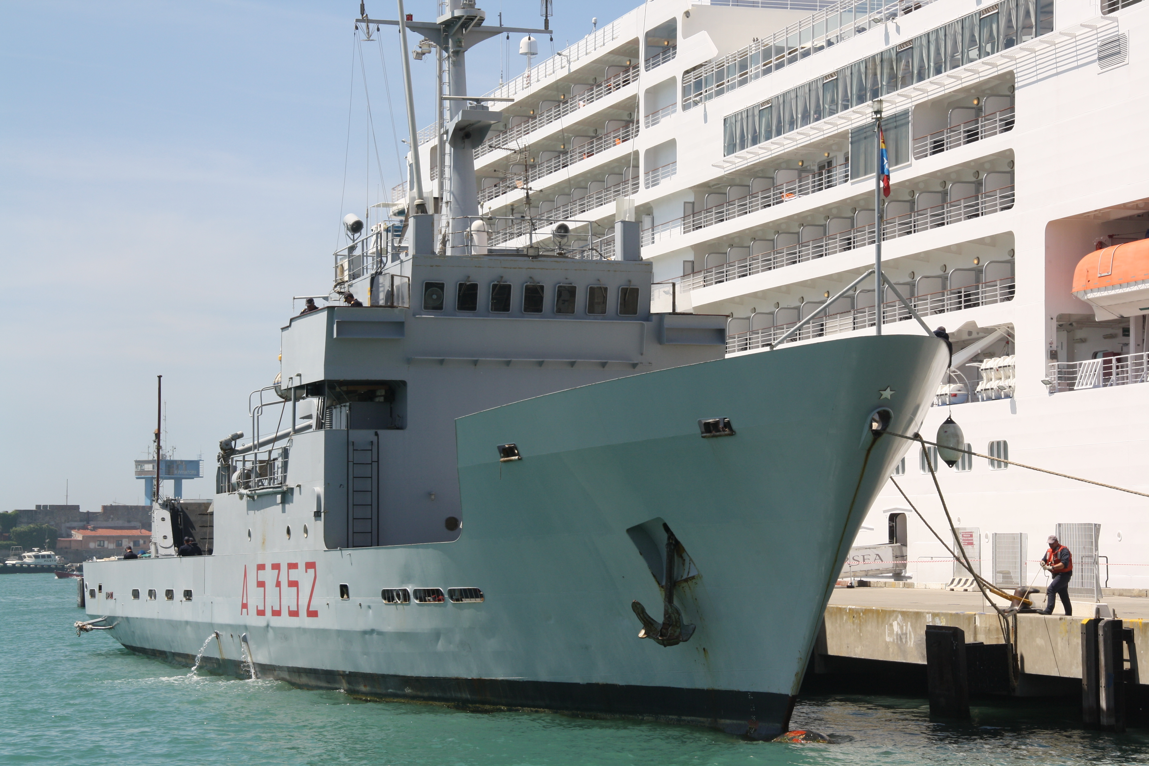 Italy Navy: Marina Militare Pennant number: A 5352 Type: Coastal Transport Launch date: May 5, 1987 Builder: Cantiere Mario Morini Displacement: 631 t Length overall: 56.72 m Beam: 10 m Draft: 2.6 m Main engine: 2 x Isotta Fraschini ID 36 8V diesel engines Speed: 14 knots Range: 1500 nm Crew: 32